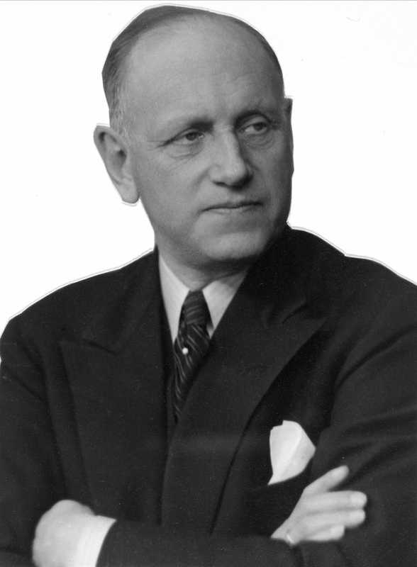 Norwegian engineer Fridtjof Heyerdahl (1879–1970). President of Norwegian Red Cross.